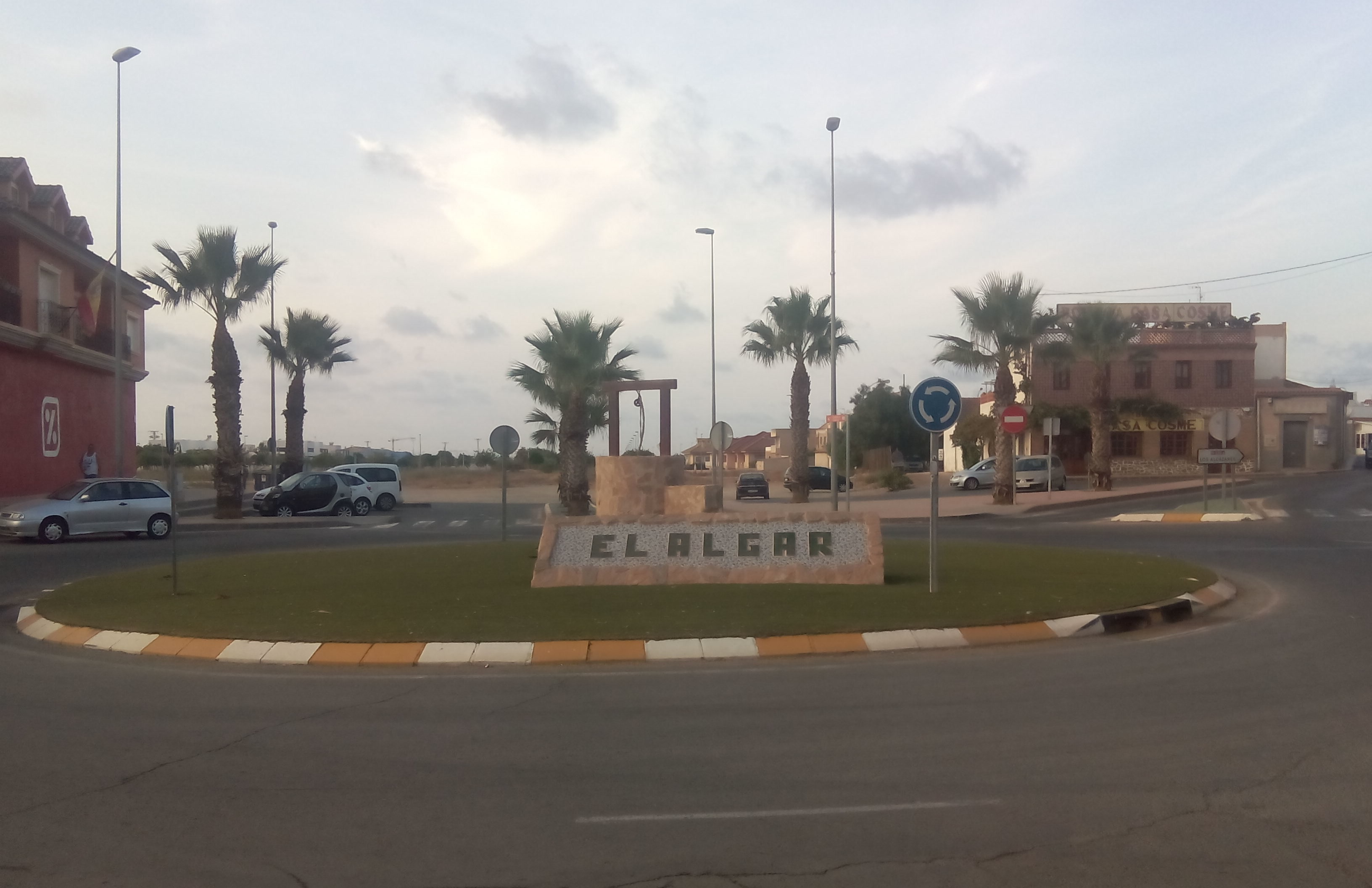 The picture is about the main roundabout of the town.